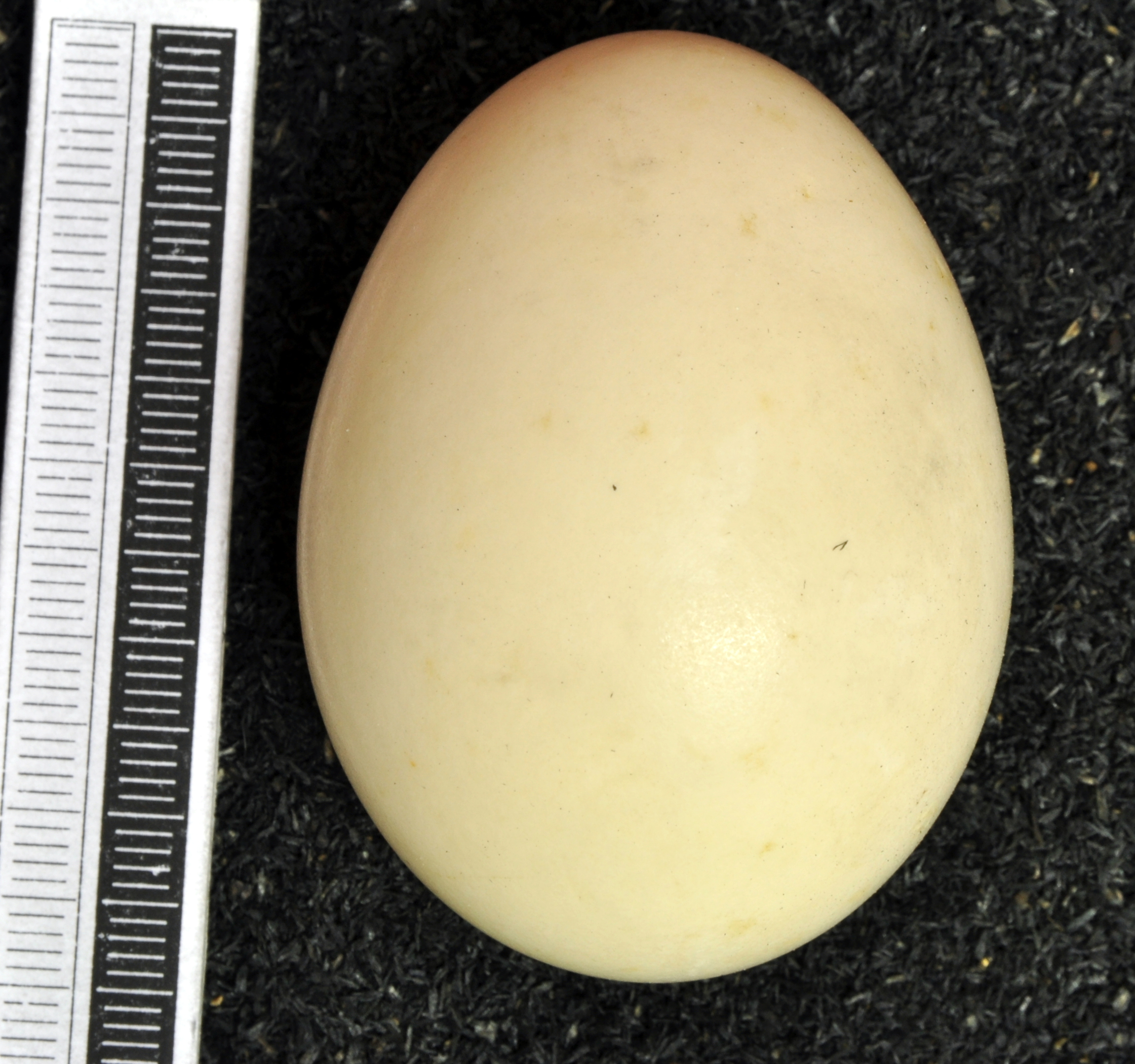 Eurasian wigeon Anas penelope , egg, Coll. Museum Wiesbaden